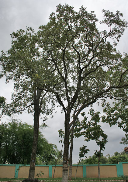 Red Sandalwood Pterocarpus santalinus in Talakona forest, in Chittoor District of Andhra Pradesh, India.